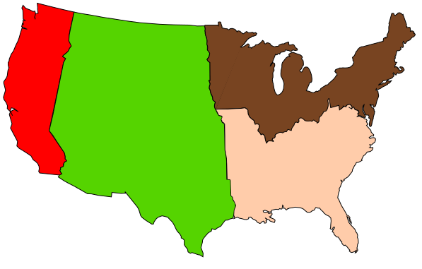 Pacific States of America, puppet regime under Japanese control Rocky Mountain States, buffer zone under Japanese oversight United States of America (remaining territory), under German military government "The South", puppet regime under German control